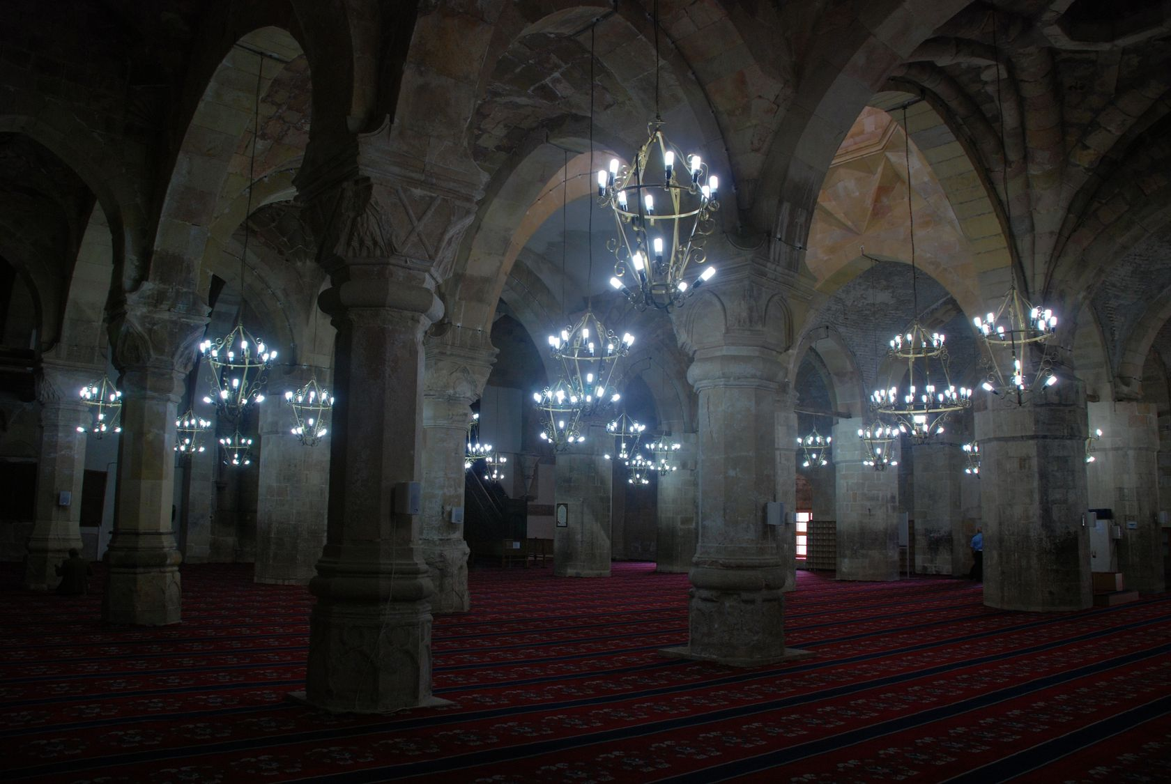 Divriği, mosque